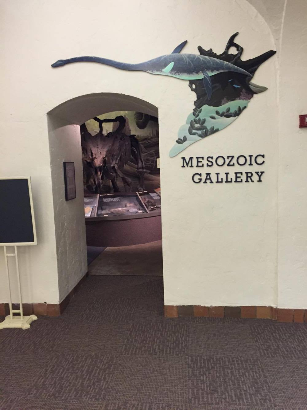 Entrance of Mesozoic Gallery at UNL State Museum